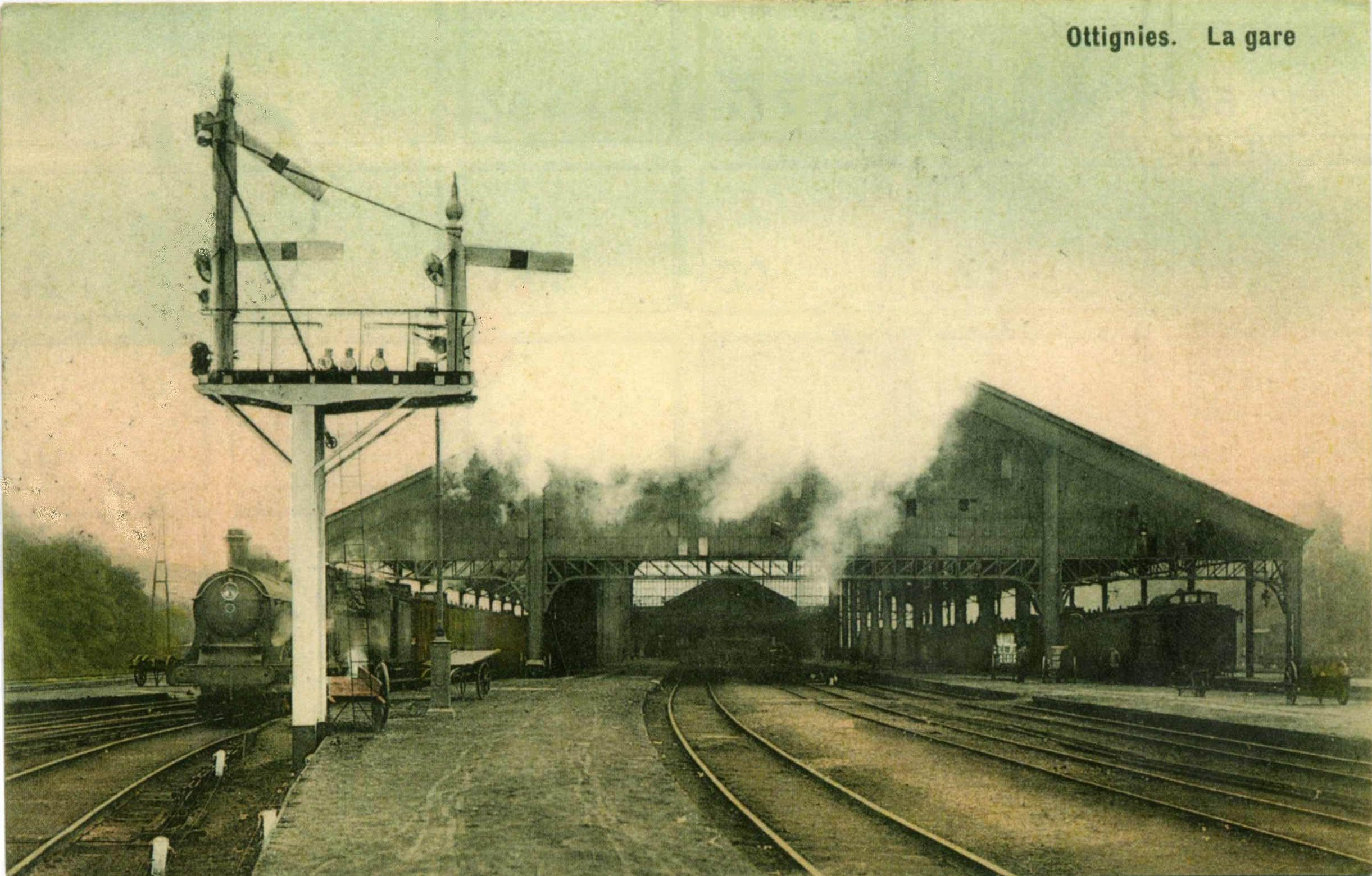 Ottignies train Station (Brabant), Belgium. early 20th century